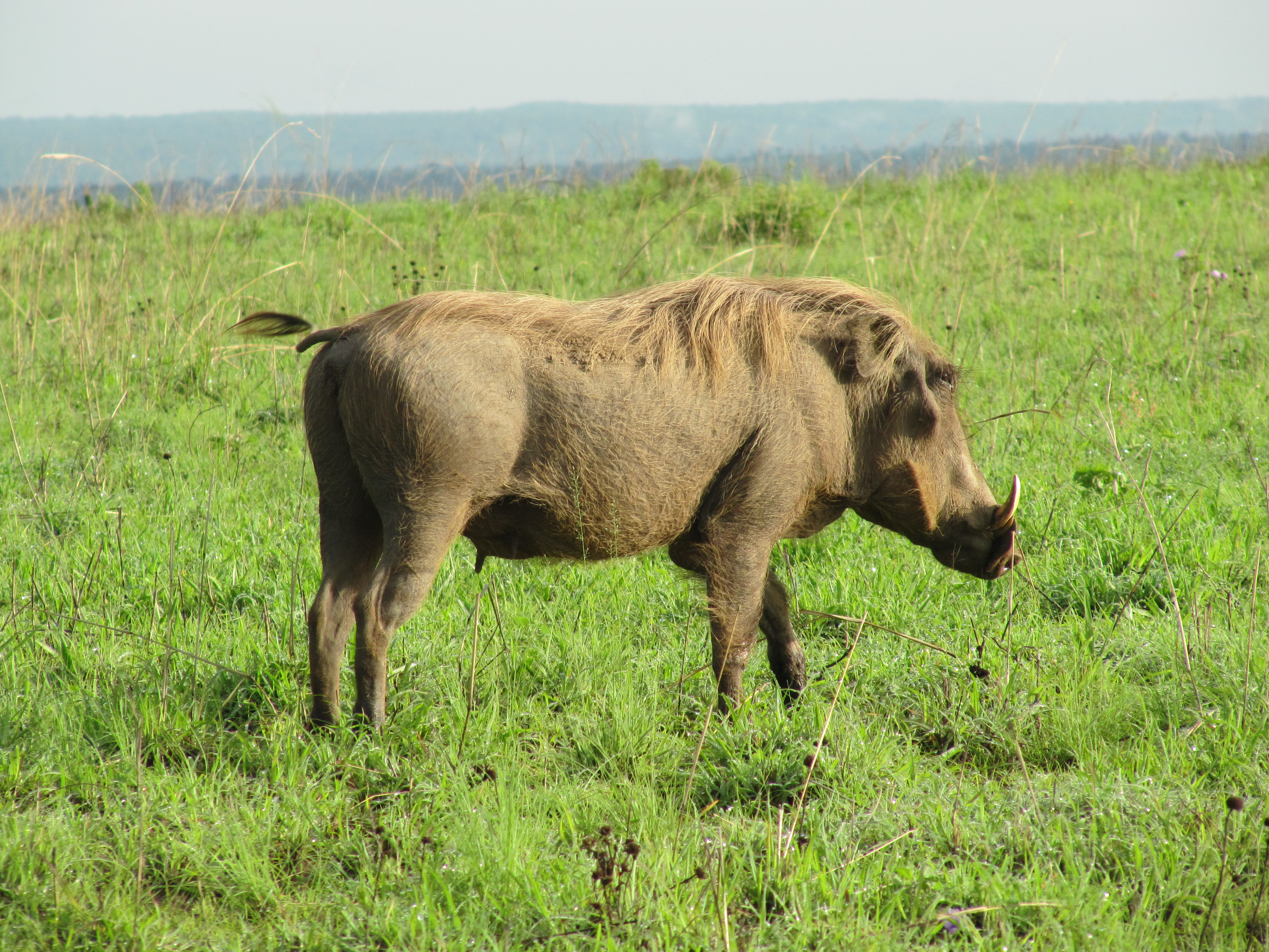 Warthog in Murchison Falls National Park